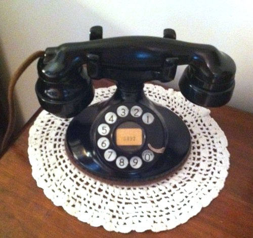 Western Electric 202 Telephone made in 1931, refurbished in 2011. It has the E1 handset with a spit cup and cloth covered handset cord.